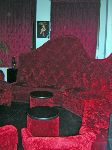 Main Room